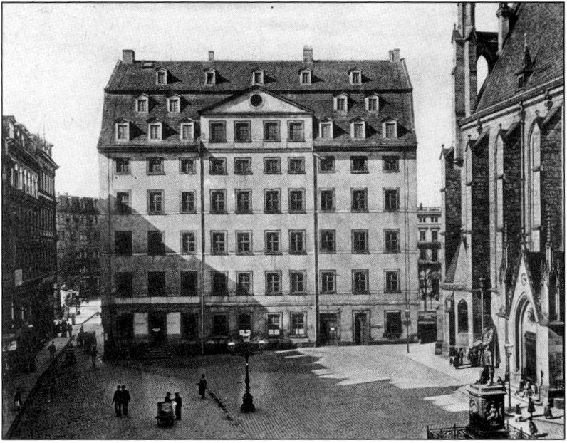 Historical Thomaskirchhof before 1900 with Thomasschule from Bach's time and Leibnitz-memorial.